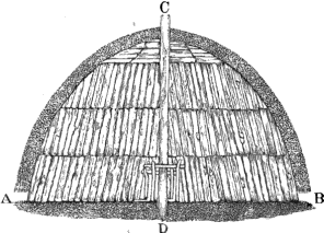 Douglas_Hamilton,_Alan, Fig._13._Vertical_Section_of_Kiln